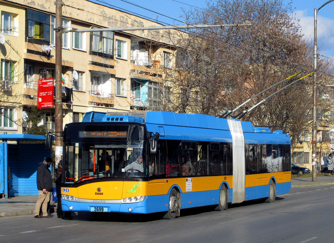 Škoda 27Tr Solaris in Sofia